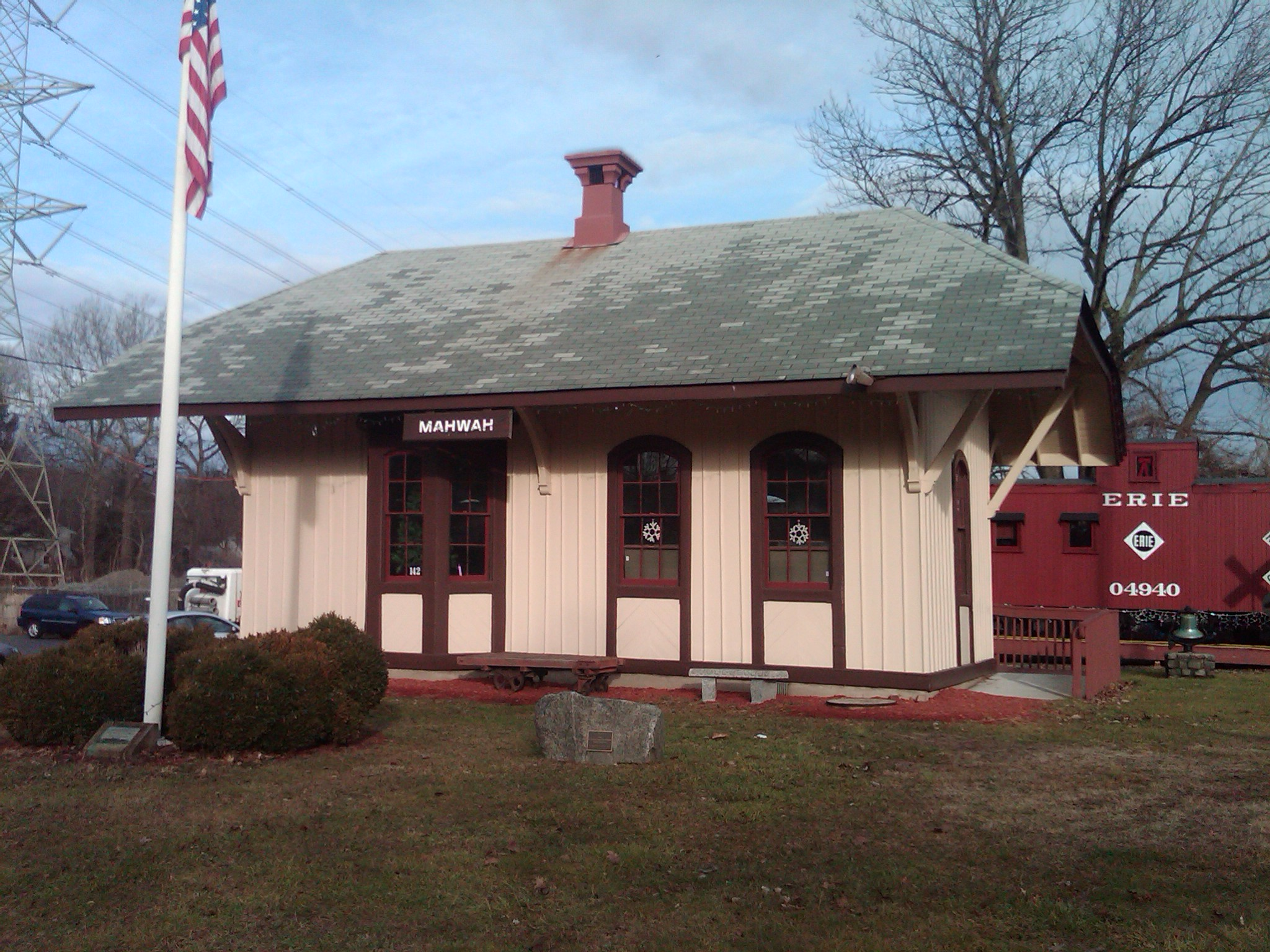 The original Erie Railraod Mahwah Station, seen from Old Station Lane in Mahwah, New Jersey. The station, which was moved from its original location in 1902, was built in 1871. It was restored as a museum in 1968.